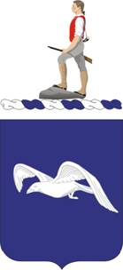 413th Regiment (Training) Coat of Arms